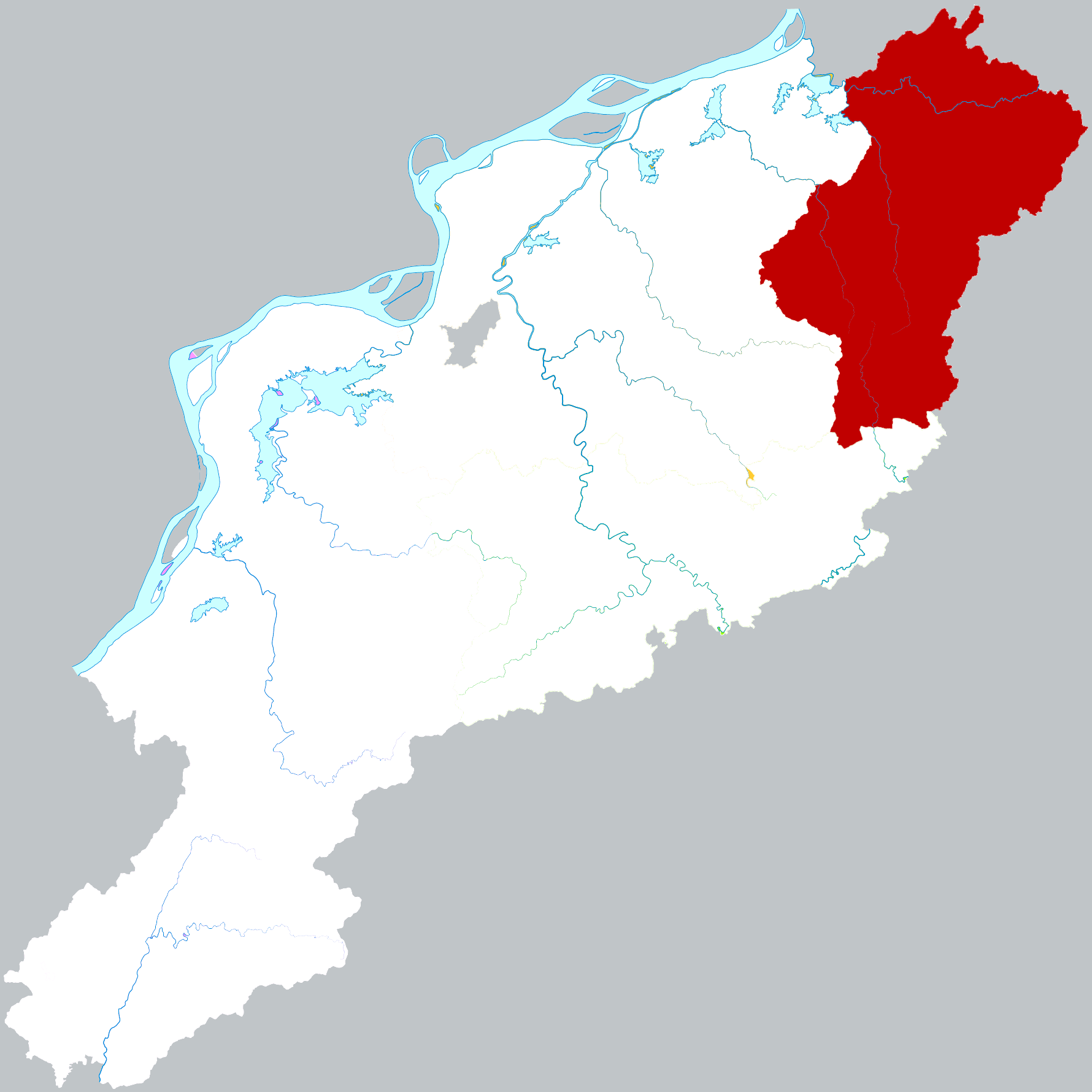 Location of Qingyang county in Chizhou city, China